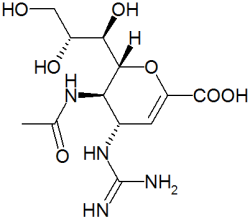 Chemical structure of zanamivir.